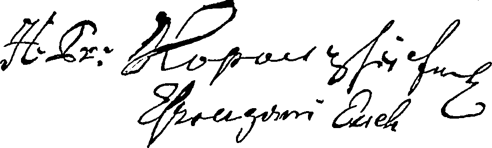 signature of József Kopácsy, archbishop of Esztergom.